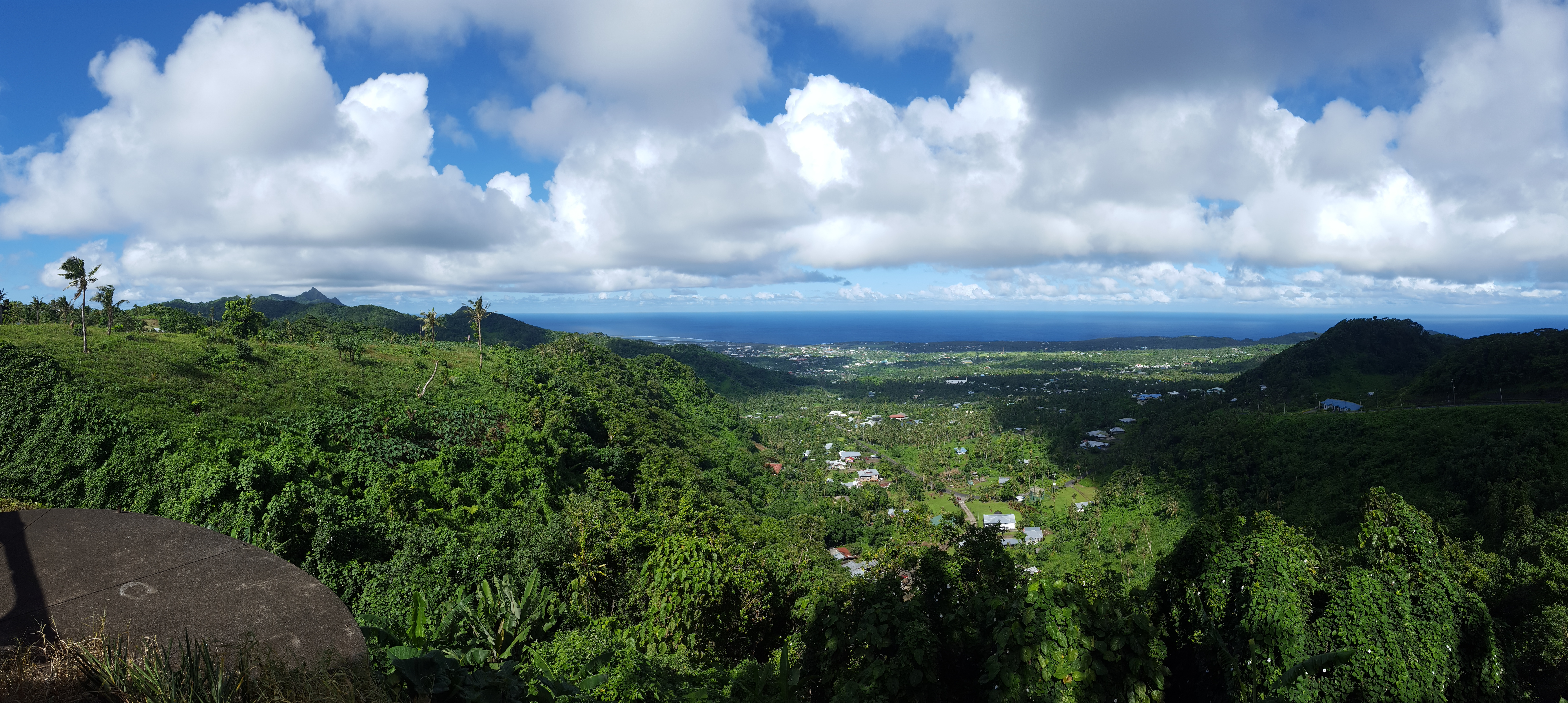 Panorama from A'oloau, American Samoa